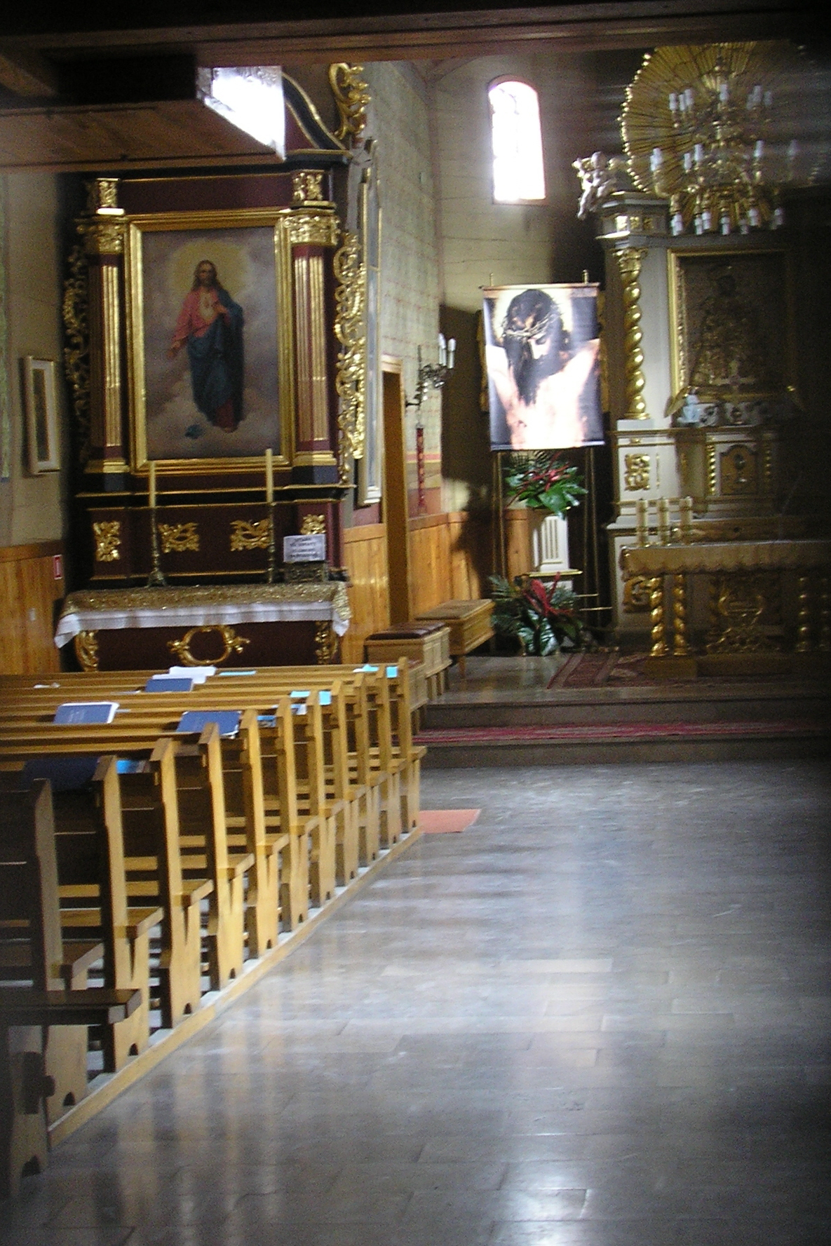 Church of St. John the Evangelist in Pisarzowa.